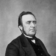 Joseph H. Defrees, US Representative from Indiana